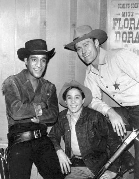 Publicity photo from the television program The Rifleman. Pictured from left: Sammy Davis, Jr., Johnny Crawford, and Chuck Connors.